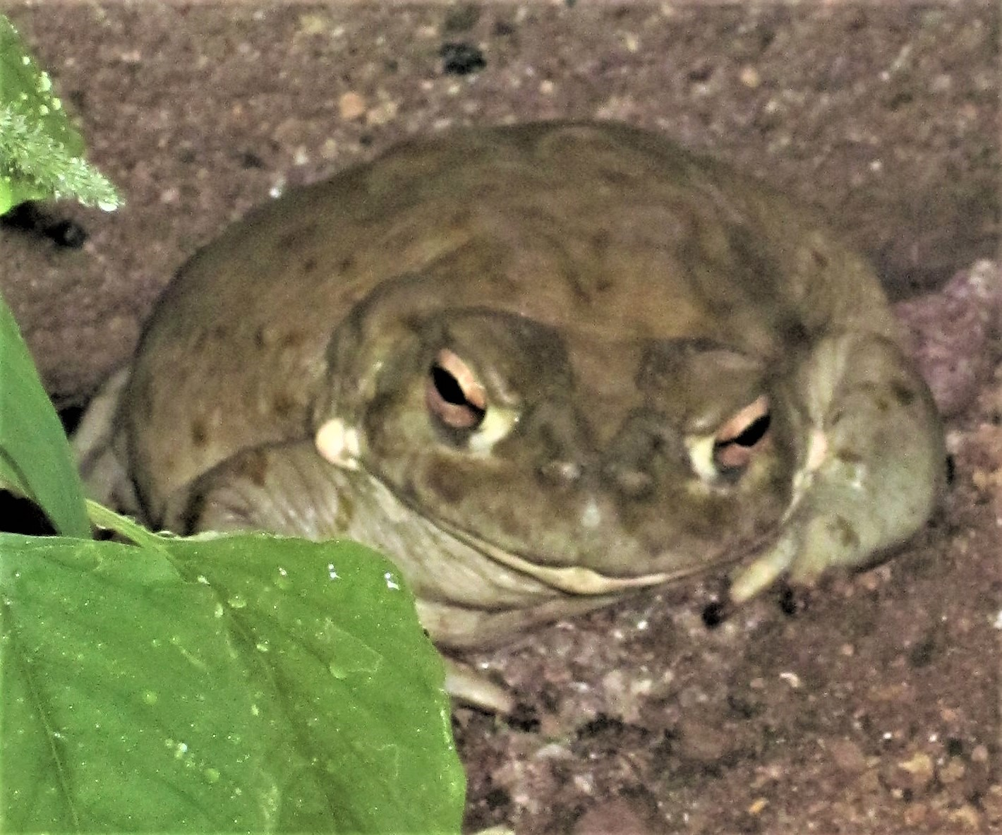 Toad I took a picture of in my backyard. About as big as a man's fist.